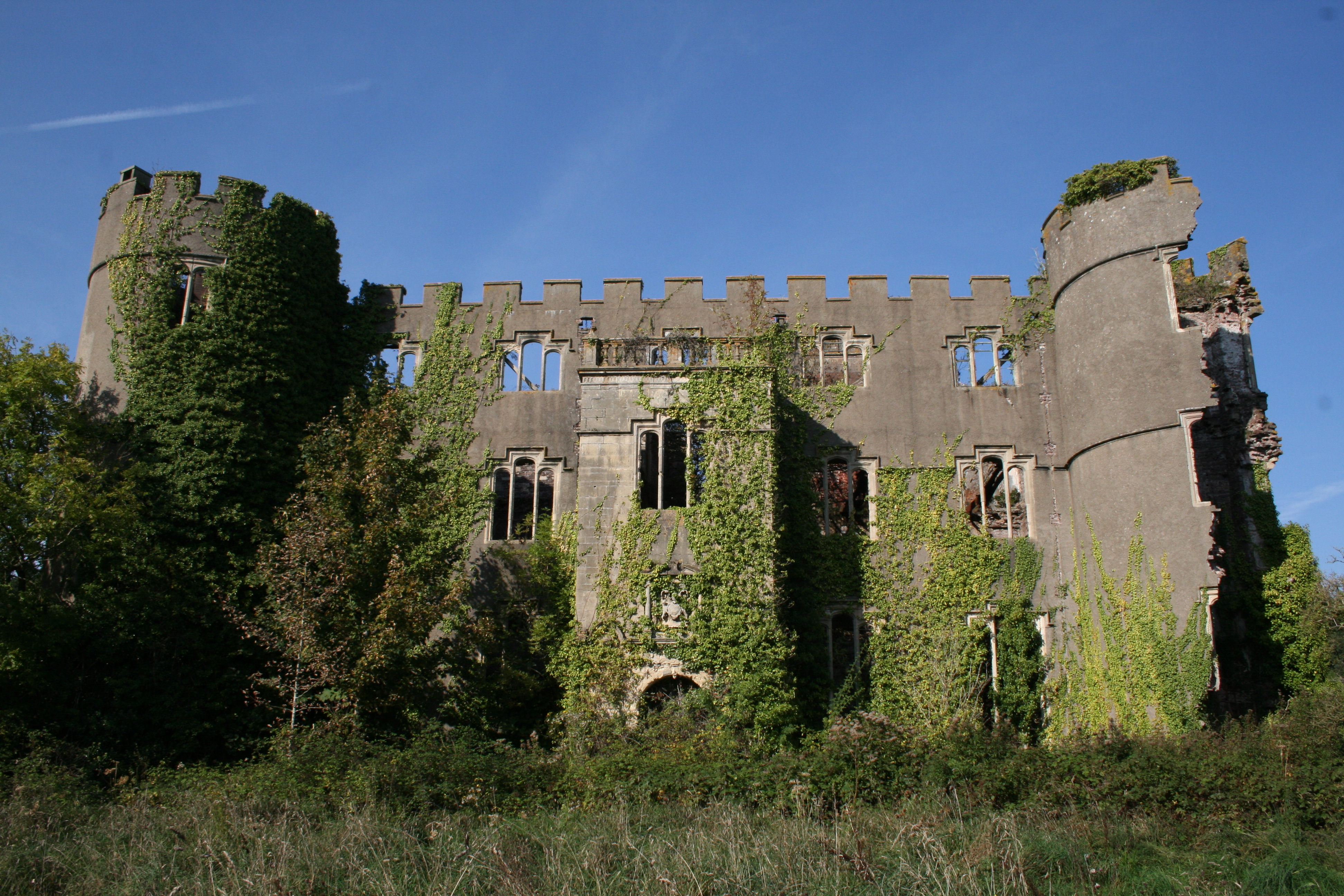 This place is truly amazing and its such a shame and embarrasment that its been left to get in this state of disrepair.